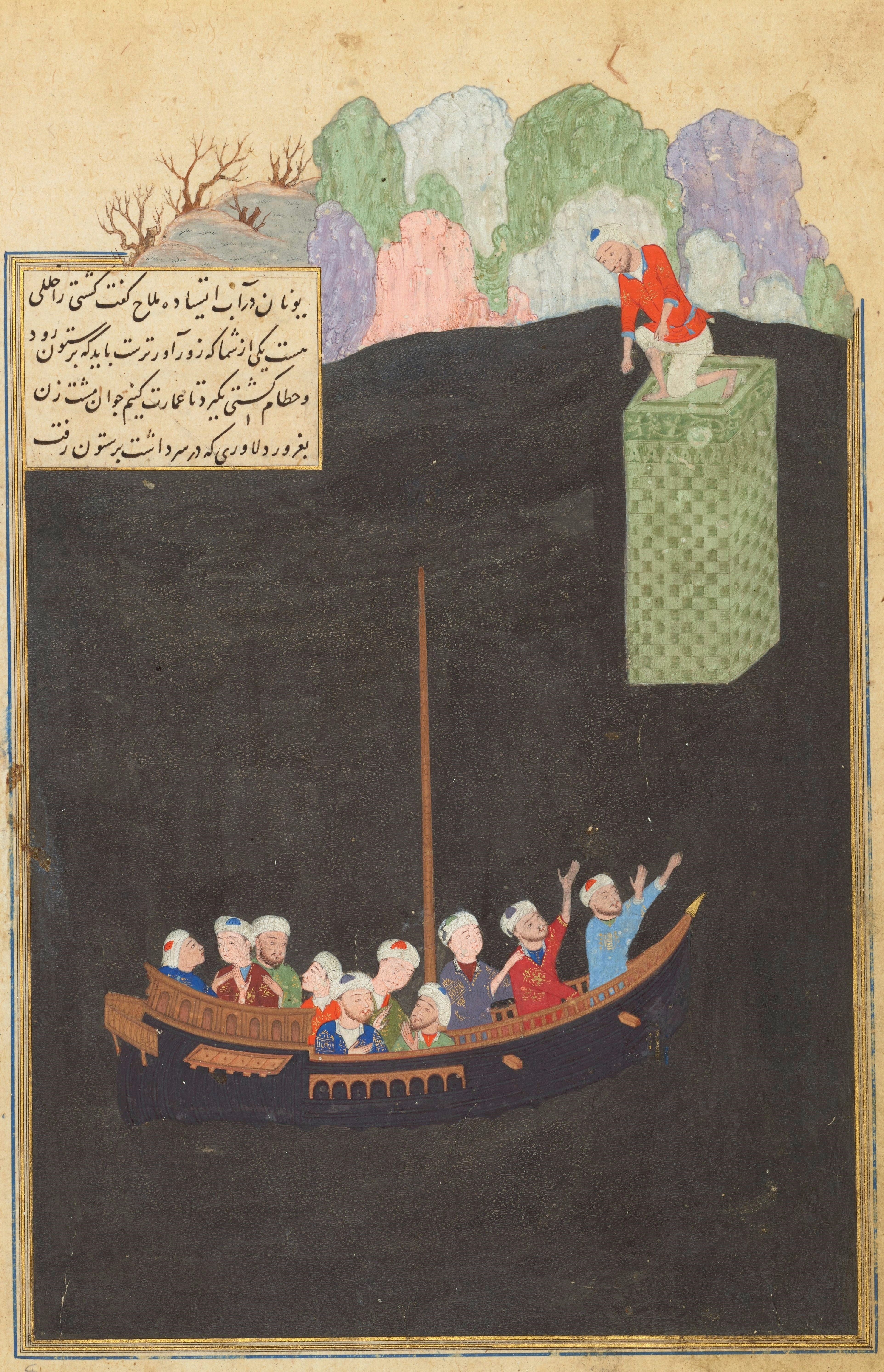 Amir_Khalil._A_youth_is_marooned_by_an_angry_boatman._Sa'di,_Gulistan._f.29v._Chester_Beatty_Library,_Dublin